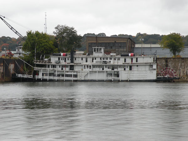 Picture of the Becky Thatcher (also known as Mississippi III) docked at Neville Island in Allegheny County, Pennsylvania, on October 17, 2009. The boat, assembled in 1927 (though parts of it were circa 1899), was the last of the Texas-deck sternwheelers, and was listed on the National Register of Historic Places. It was originally thought that on the night of February 19, 2010, during severe winter weather conditions, the showboat Becky Thatcher sank at its mooring on Neville Island in the Ohio River. After investigation, it was determined that sometime during that same night, Becky Thatcher was impacted by an unknown vessel, where her superstructure was moved off the main hull, and she quickly sank. It is believed that a mooring line parted allowing the boat's stern to drift into the channel. Demolition of the boat began on Monday, March 8, 2010. The boat's hull was never raised and remains there to this day.